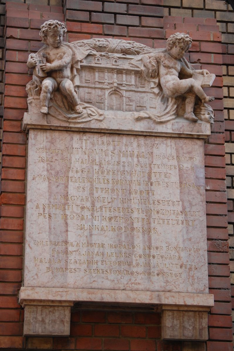 Mihály Vitkovics commemorative plaque in Budapest District V, Veres Pálné Street No 36.